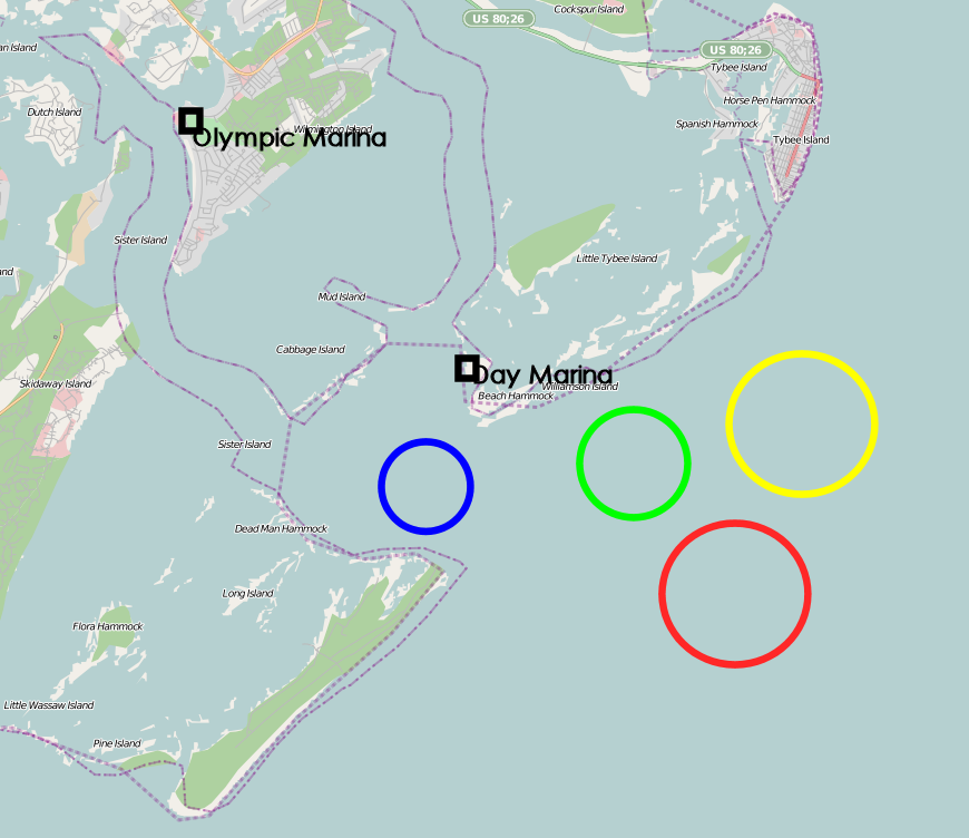 Venue's of the 1996 Olympic Sailing Event. Black = Marina's Yellow = Finn & Star area and 470 course area Red = Tornado & Soling course area Green = Europe & Laser course area Blue = Windsurf and Soling Matchrace course area This map may be incomplete, and may contain errors. Don't rely solely on it for navigation.